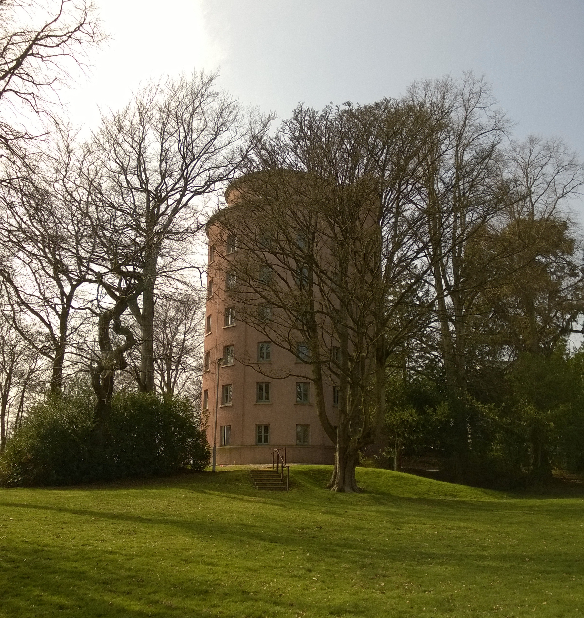 The Round Tower student residences at The Robert Gordon University, Garthdee campus, Aberdeen